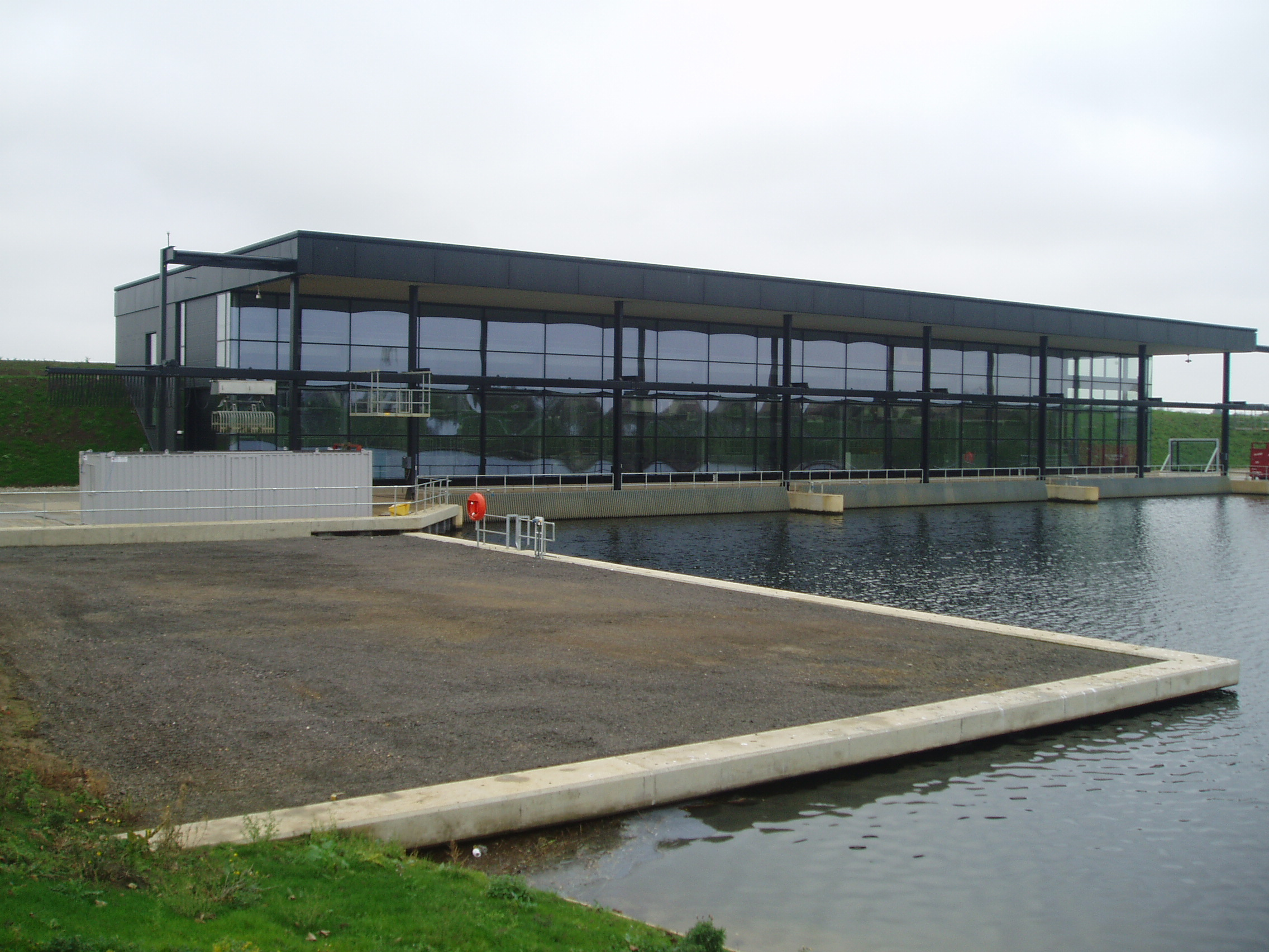 The new pumping station at Wiggenhall, which pumps the Middle Level main drain into the River Great Ouse. It was commissioned in 2010, and was the second largest pumping station in Europe at the time. The pumps are visible through the glass wall that forms the front.